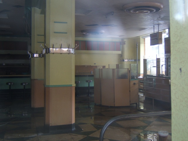 Ben's Deli/Restaurant, Montreal Quebec Canada